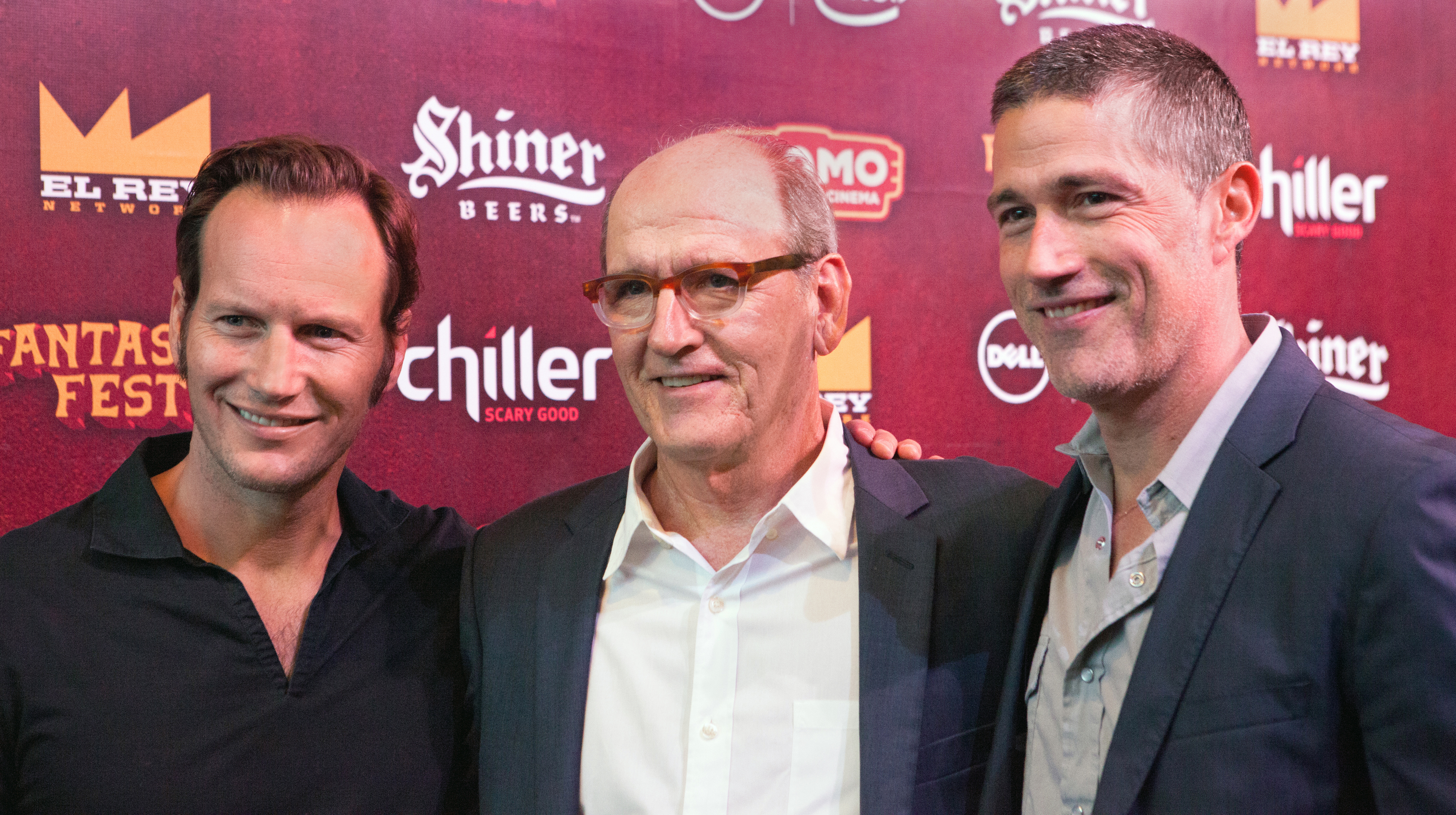 Patrick Wilson, Richard Jenkins, and Matthew Fox at 2015 Fantastic Fest for showing of film Bone Tomahawk